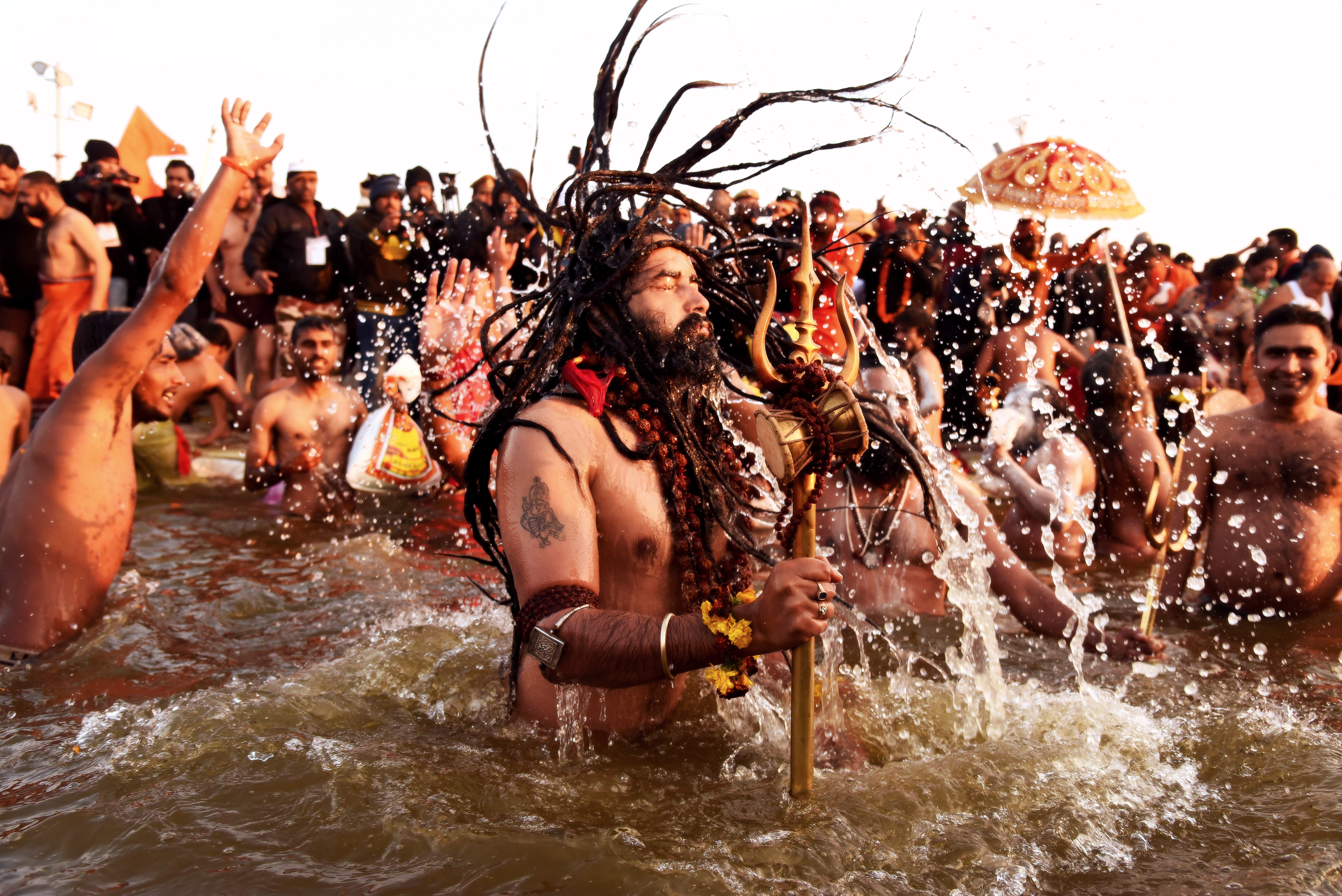 Praygraj, India This photo has been taken in the country: India